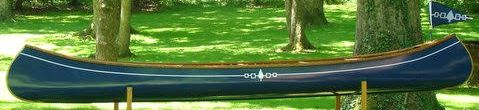 Side view of Thompson Hiawatha owned and restored by Fred Capanos